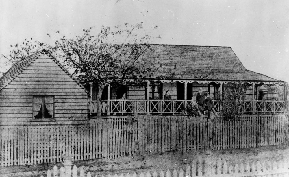 Unidentified residence in Bowen Hills, Brisbane, ca. 1875 Unidentified residence (described as residence of first inspector of schools). The first inspector of Queensland Schools was John Gerard Anderson. (Description supplied with photograph).